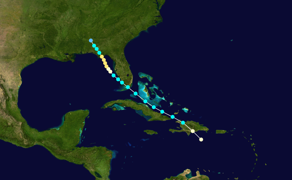 1899 Atlantic hurricane 2 track. Uses the color scheme from the Saffir-Simpson Hurricane Scale.